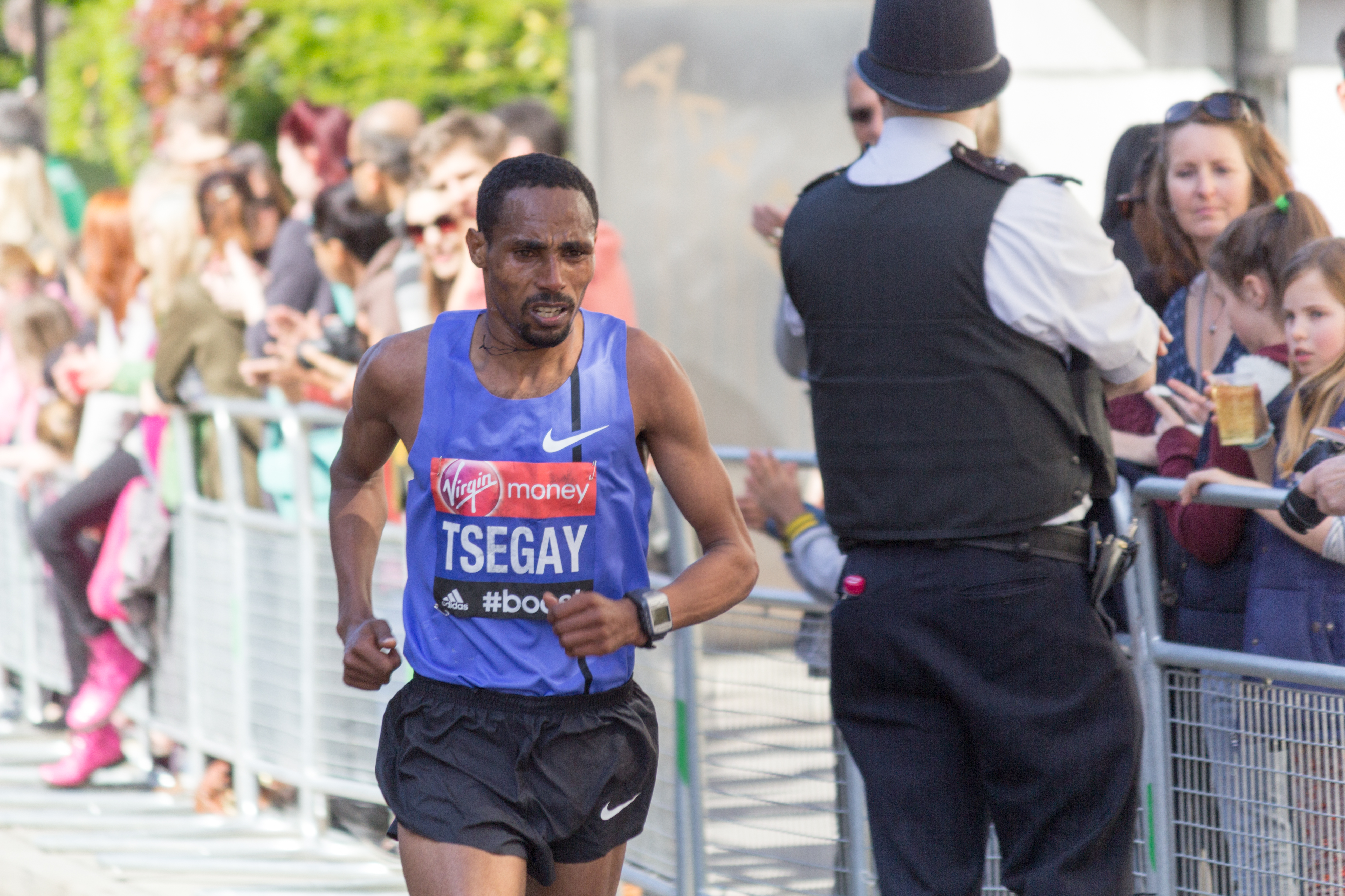 The 2014 London Marathon - Elite Men race - Samuel Tsegay